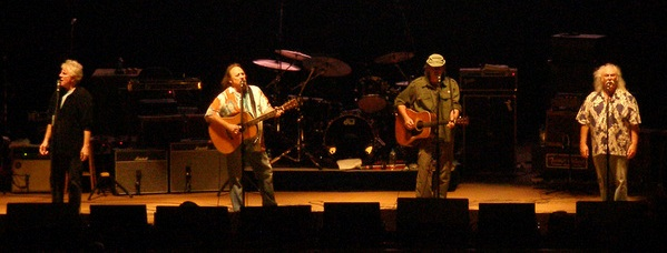 Crosby, Stills, Nash & Young perform at the PNC Arts Center August, 06.